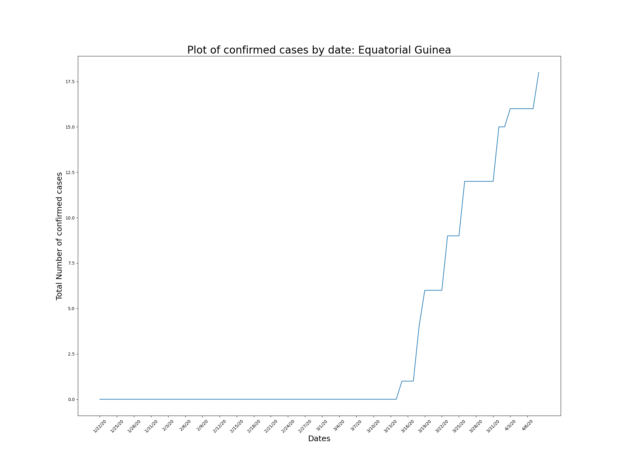 COVID 19 confirmed Cases in Equatorial Guinea